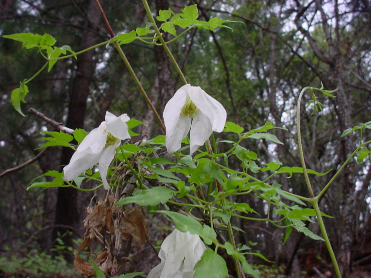 Clematis columbiana var. columbiana, Pinos Altos Range, Signal Peak, May 20, 2008, New Mexico